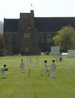 Cricket green at Ardingly College, near Haywards Heath, West Sussex.